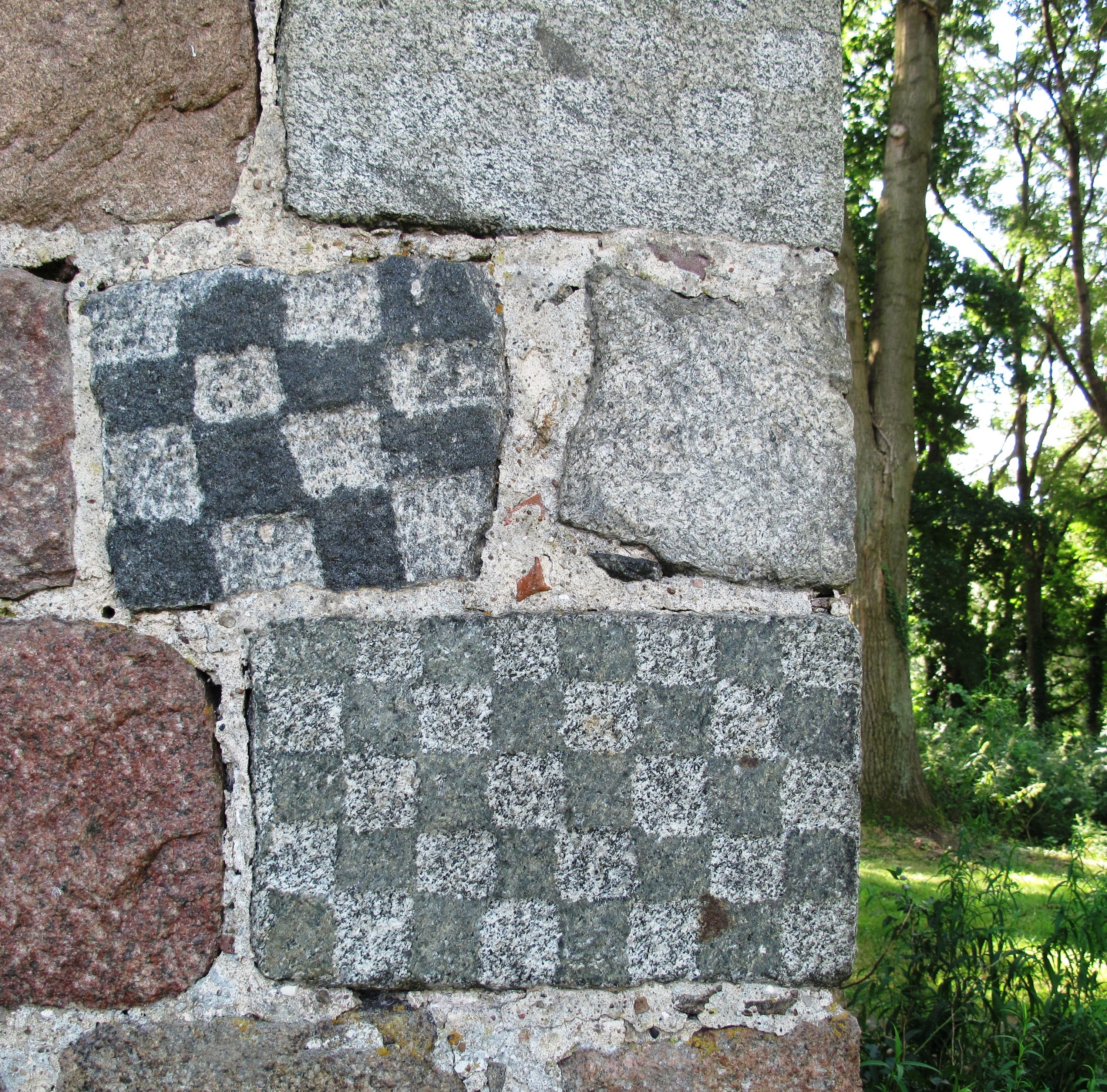 Schachbrettstein (german for: chessboard stone) on the listed village and Fieldstone church in Grunow, a village of the municipality Oberbarnim in the District Märkisch-Oderland, Brandenburg, Germany. The church was built in the 13th-century. It has the unusually high number of seven „Schachbrettsteinen“ and an in this region unique stone with the Jerusalem cross. Schachbrettsteine are fieldstones with a checkerboard pattern, which are sporadic attached to the outer walls of medieval fieldstone churches, especially in the South Baltic Sea area. Their significance/function is unclear.